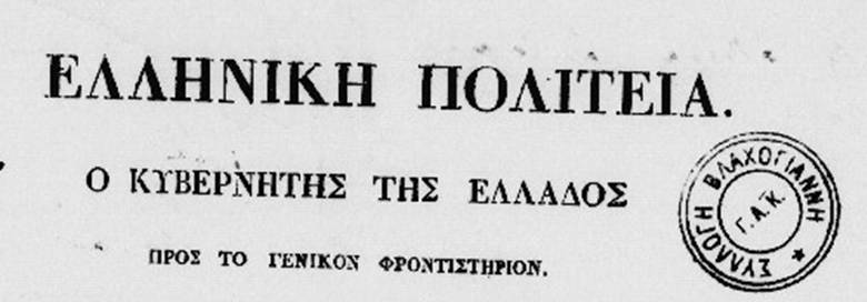 Header from an order of the Governor of Greece, Ioannis Kapodistrias, dated 31-03-1828: Elliniki Politeia